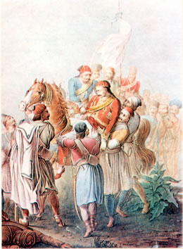 "The death of Markos Botsaris."